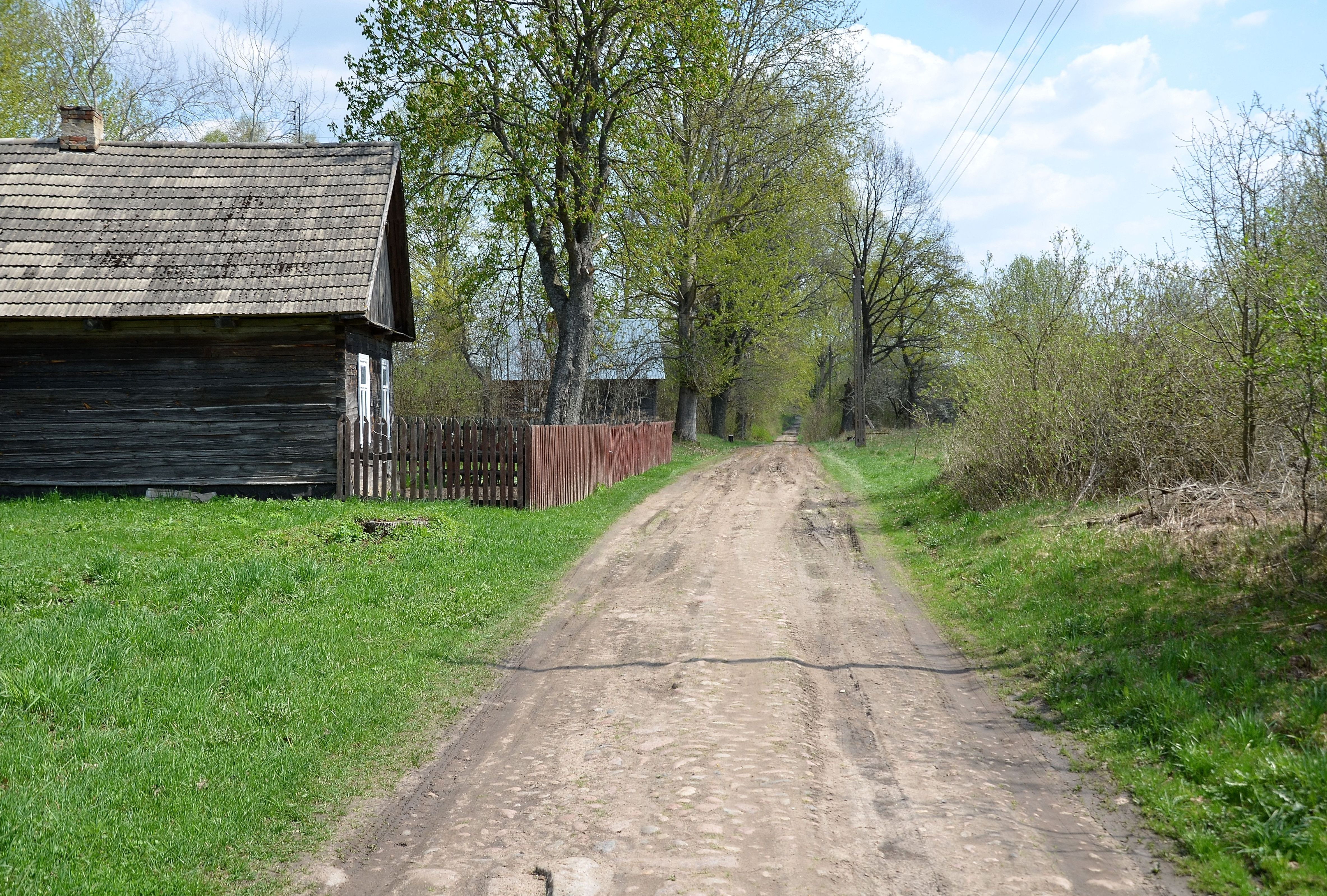 Dublany, Michałowo commune